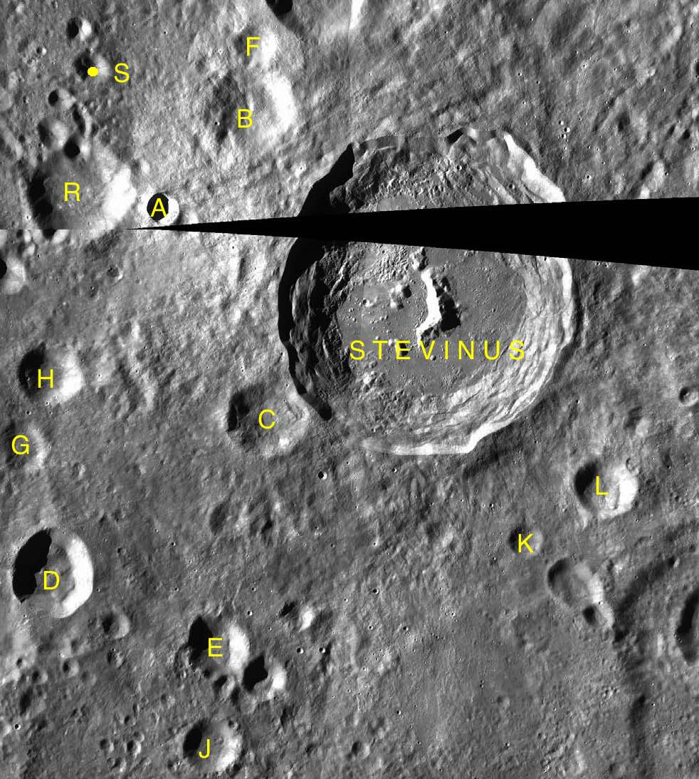 Parts of the charts LAC-98, LAC-114 used for the presentation.